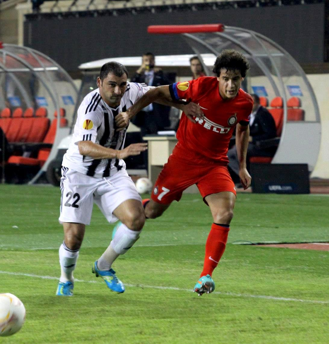 UEFA Europa League 2012-10-04 Neftchi Baku-FC Internazionale Milano.